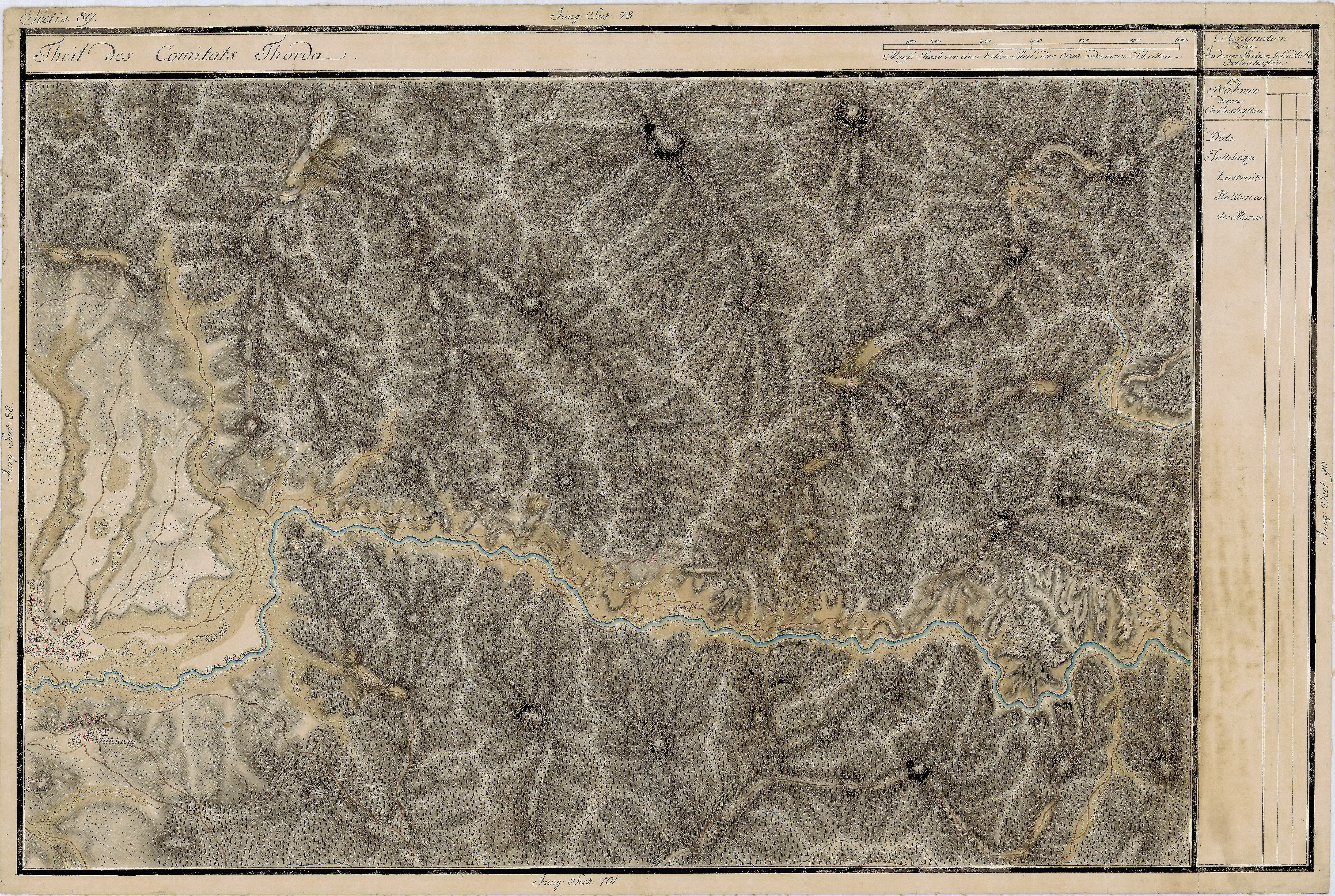 Grand Duchy of Transylvania, 1769-1773. Josephinische Landaufnahme pg.089